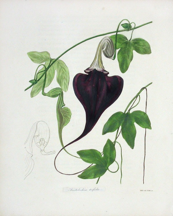 Aristolochia trifida Lam.